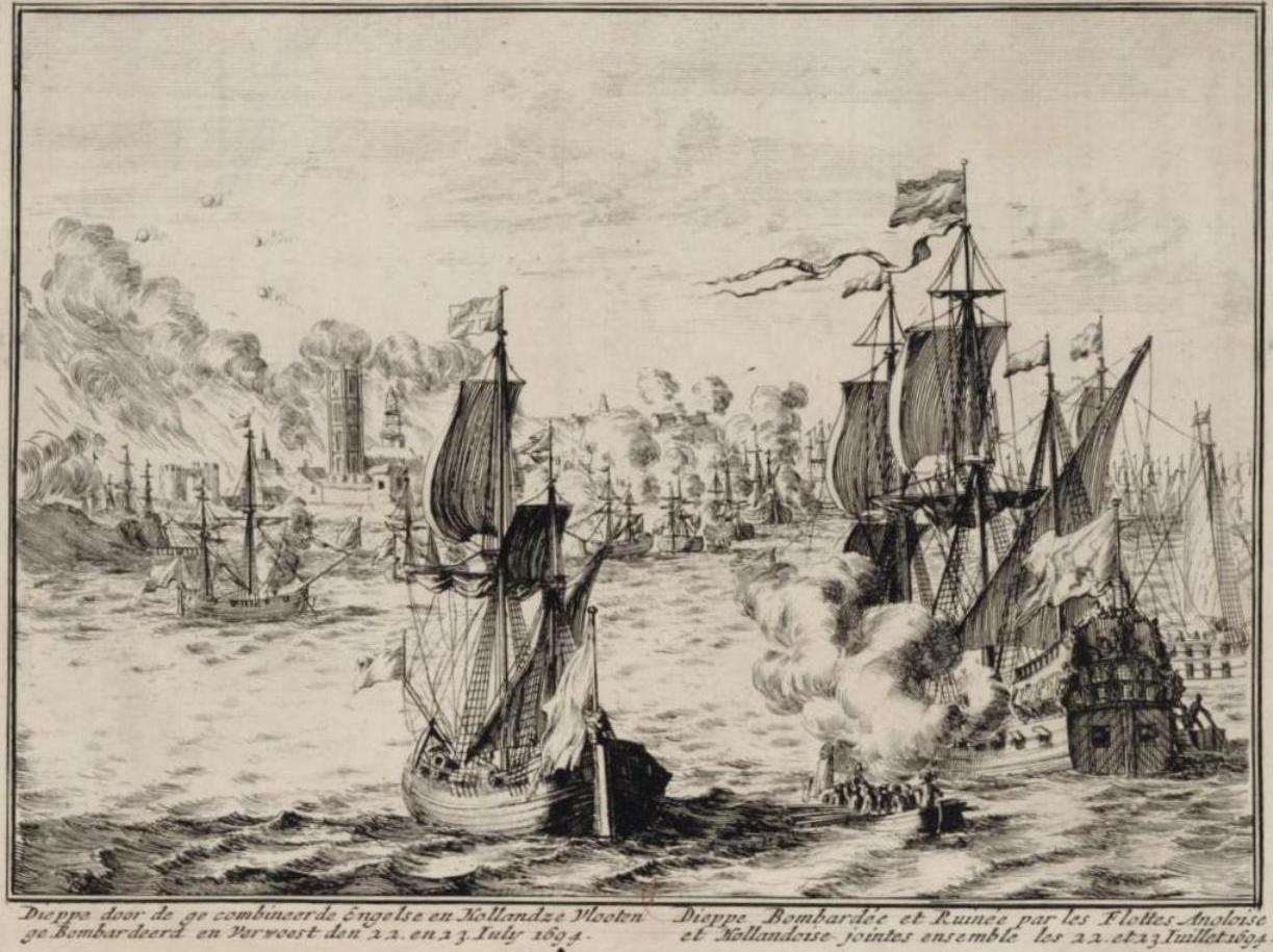 Bombing and destruction of the city of Dieppe in 1694 by the Anglo-Dutch fleet.